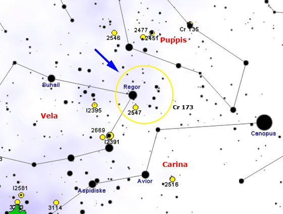 Detailed map of Cr 173, the Vela OB2 association.